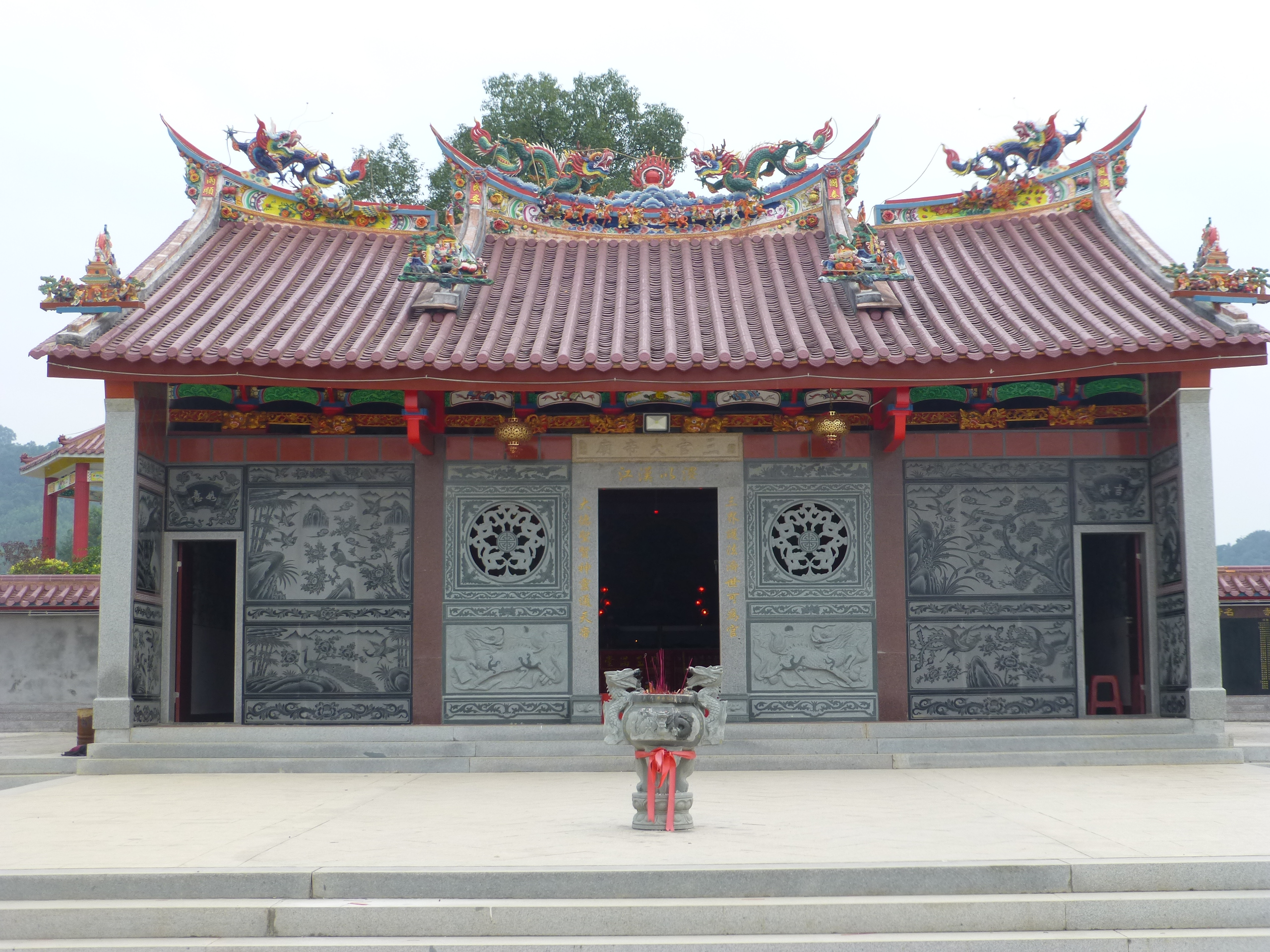 The temple of Sanguan Dadi (Three Observers, Great Emperors) in Chiling She Ethnic Township, Zhangpu County